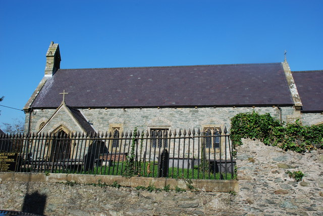 Eglwys S Edern Bodedern An ancient church restored in the 19th century.